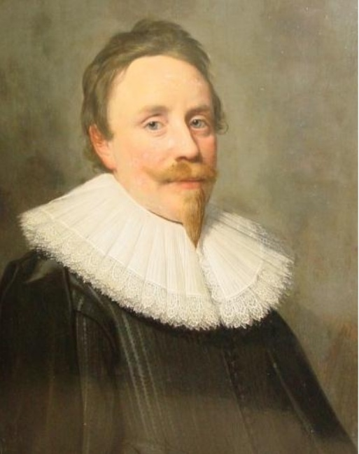 Francois van Kinschot 1577-1651